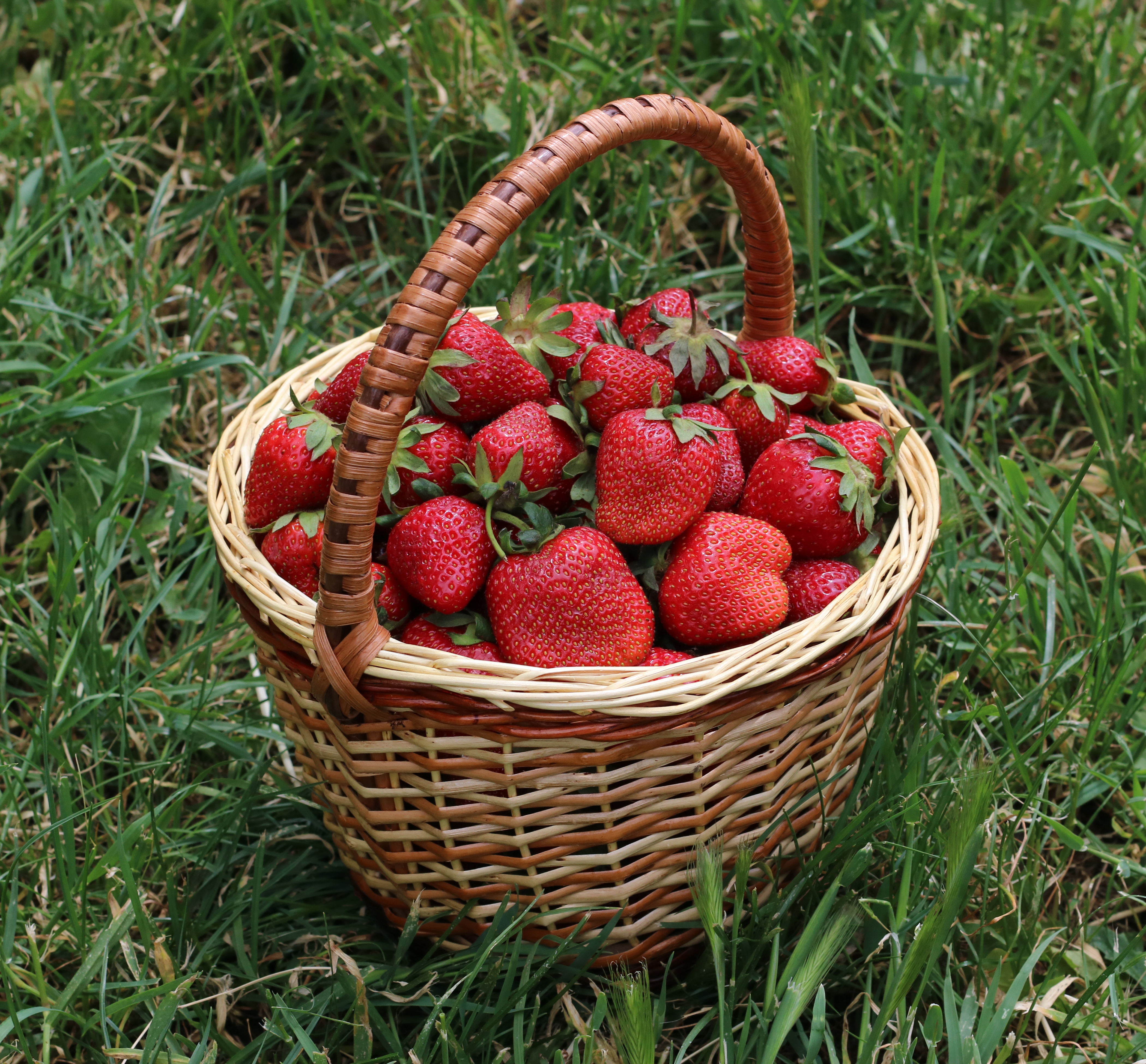 Picked garden strawberries (Fragaria × ananassa) in basket. Ukraine, Vinnytsia Oblast